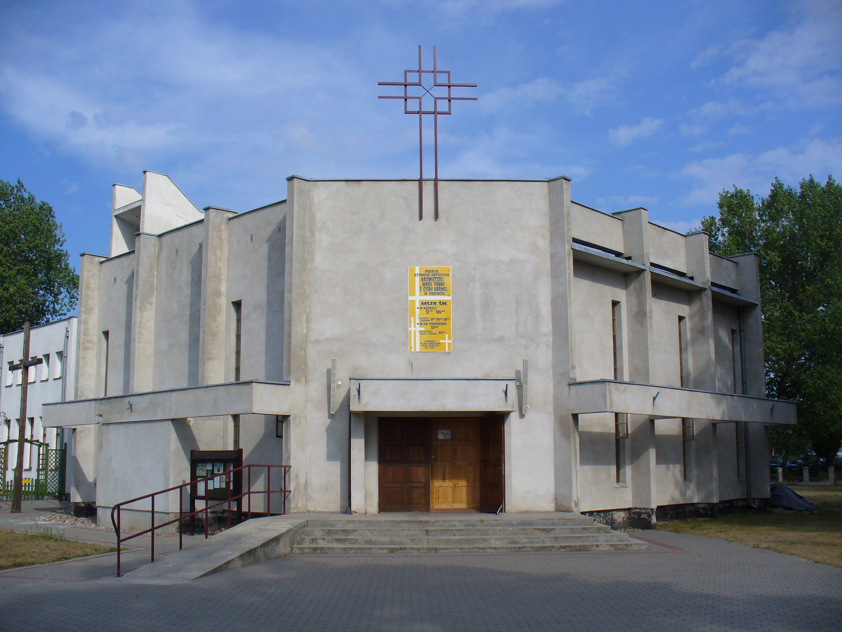 Church of Our Lady of Mount Carmel in Dąbki, Poland.